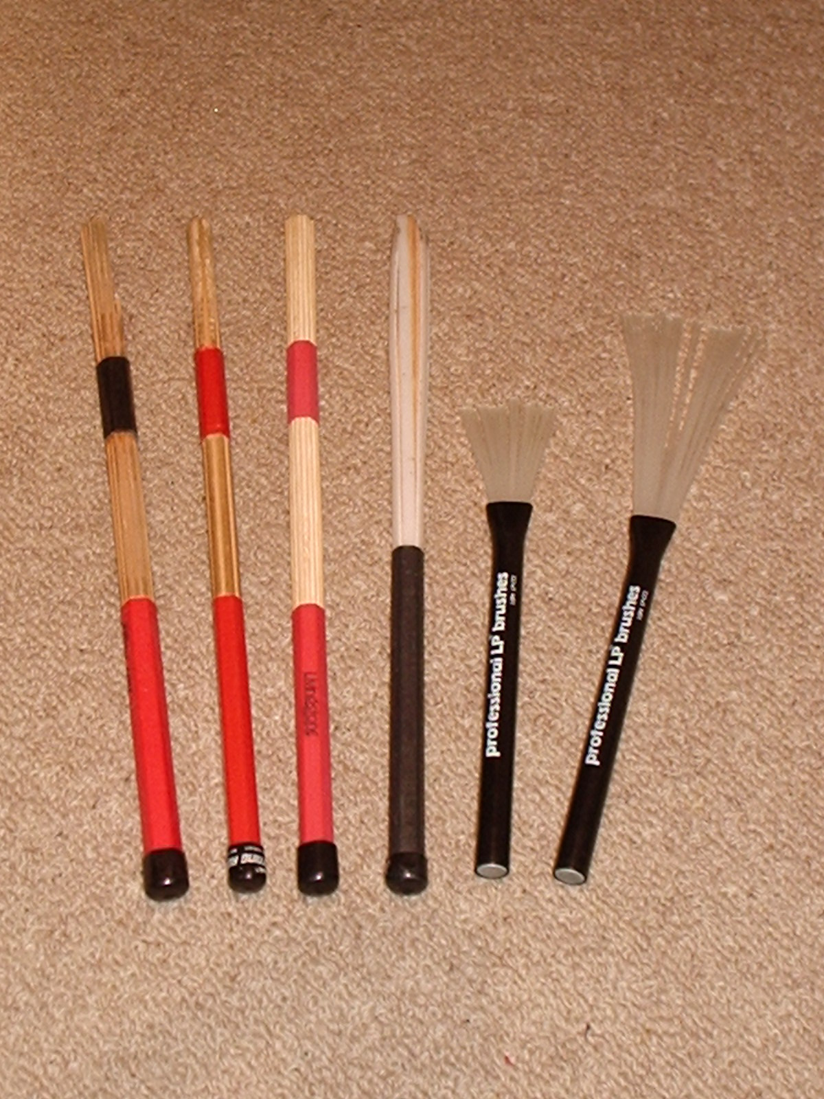 Rutes and nylon brushes, left to right: Pro-mark Hot Rod, Pro-mark Lightning Rod, Livingstone rute, AcouStick nylon sheathed rute, LP nylon brush part extended, LP nylon brush fully extended